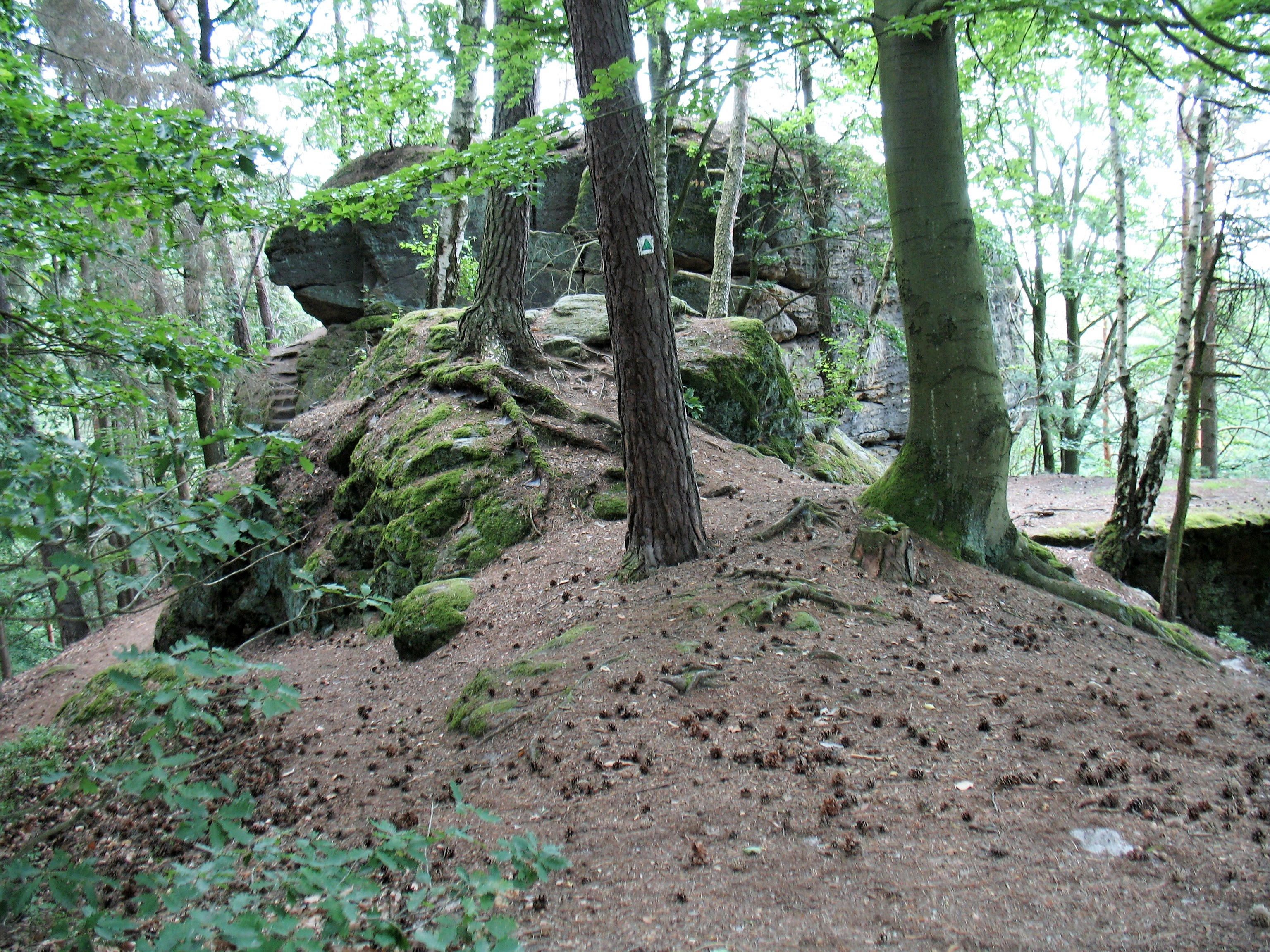 Rock castle near Konrádov, called Petrified Castle